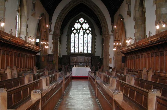 Chapel of St. John the Baptist, Rossall School, Fleetwood - East end